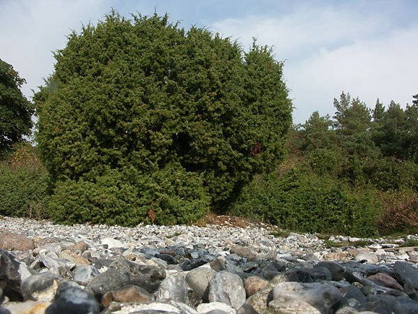 a field of flintstones at Rügen, Germany.